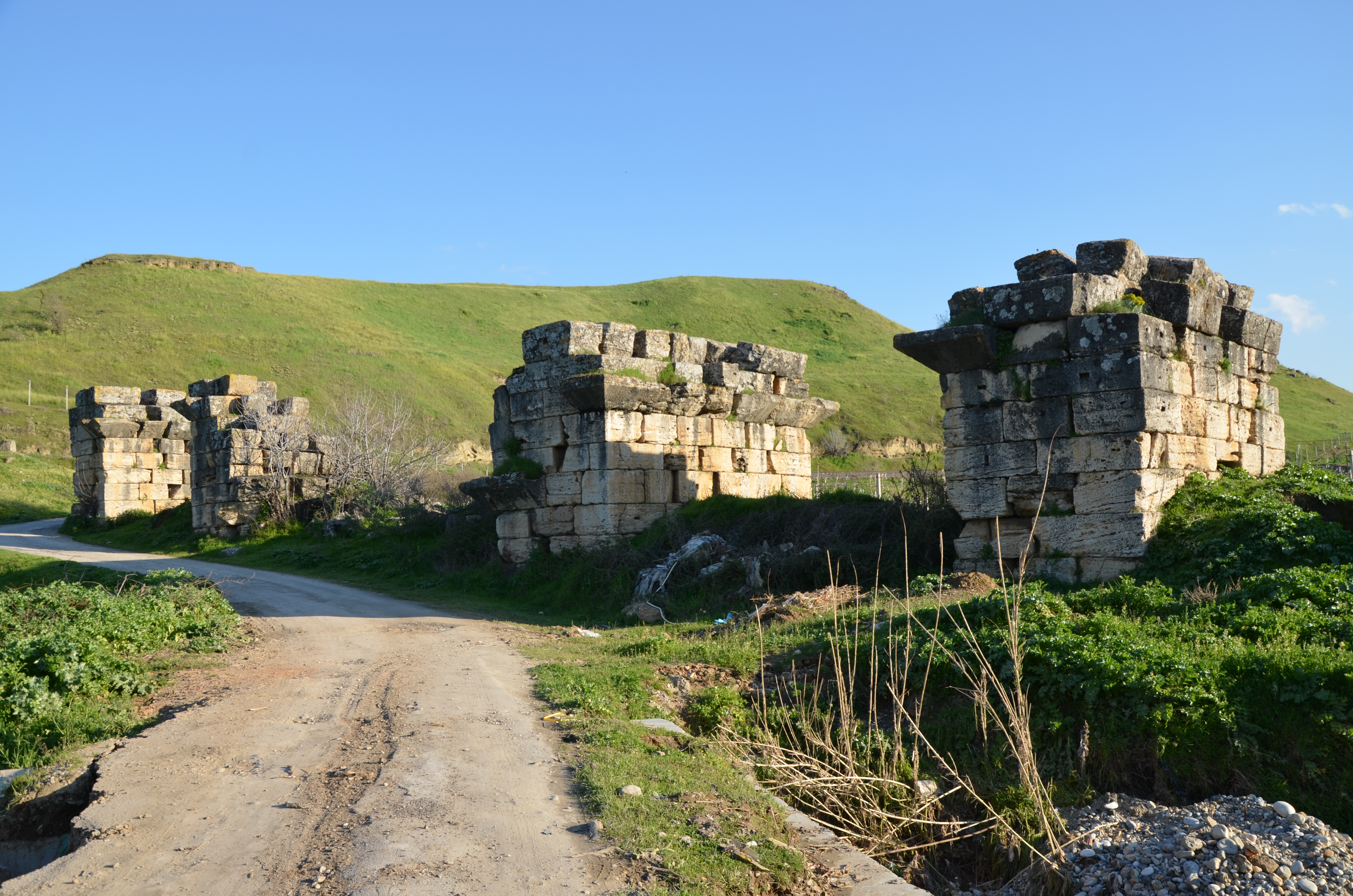 Roman bridge near Laodicea on the Lycus, Turkey